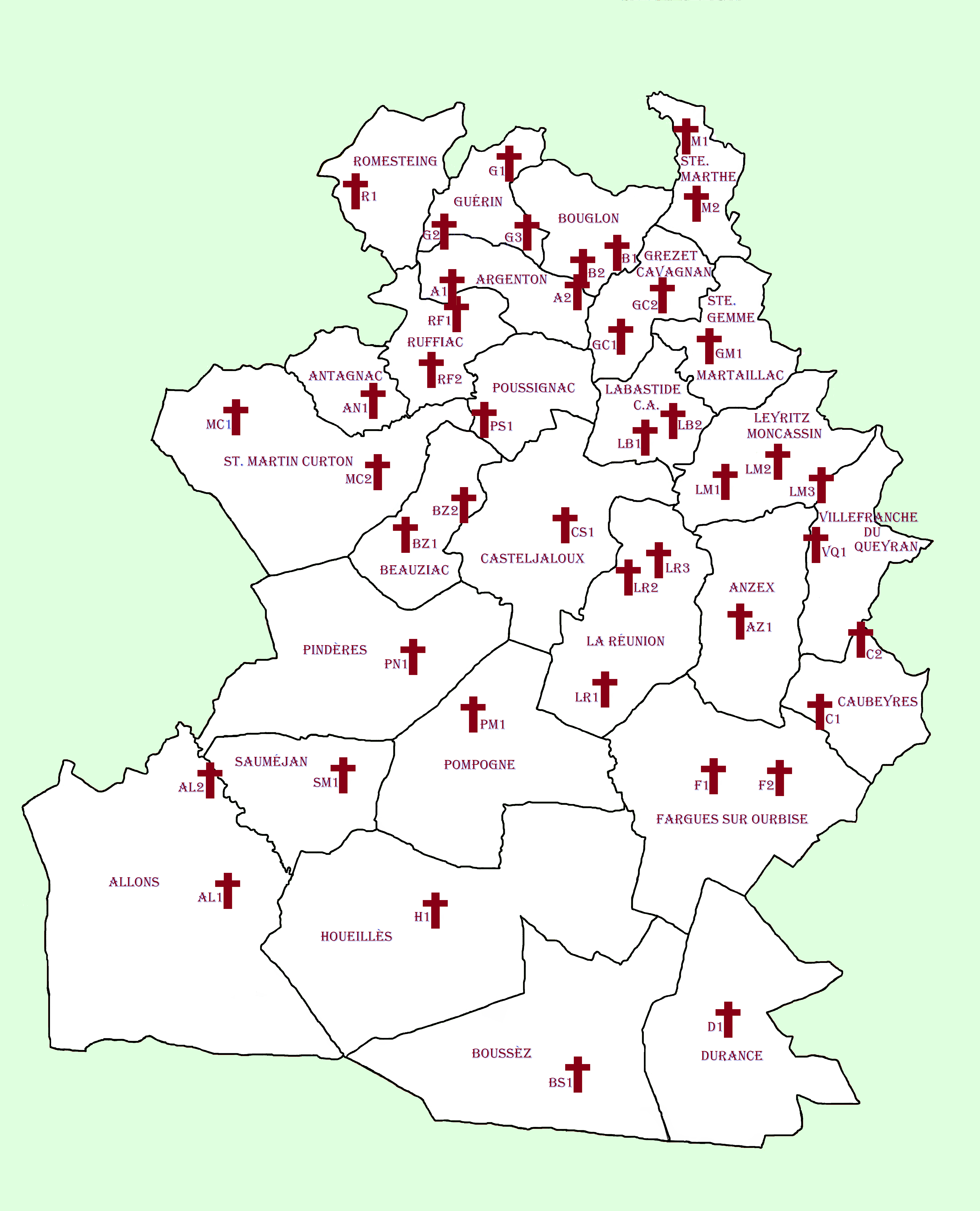 Map of churches